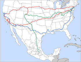 Jack Kerouac's trips around America